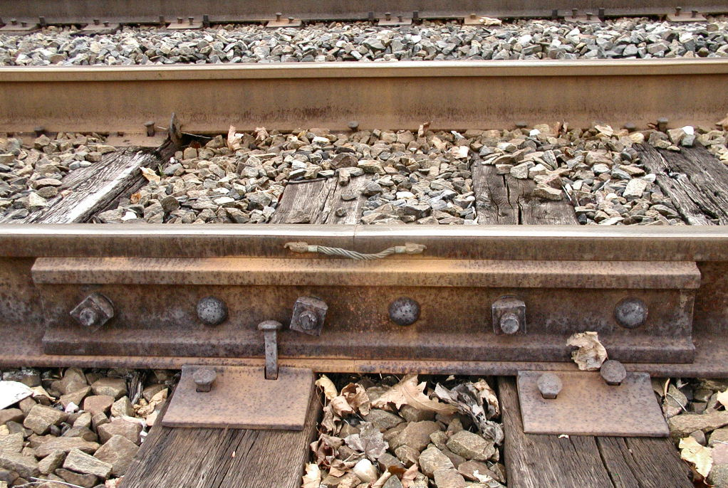 Bonded main line 6-bolt rail joint on a segment of 155lb Pennsylvania Special rail. Installed in the 1960's, located at Thorndale on the Amtrak Harrisburg Line.